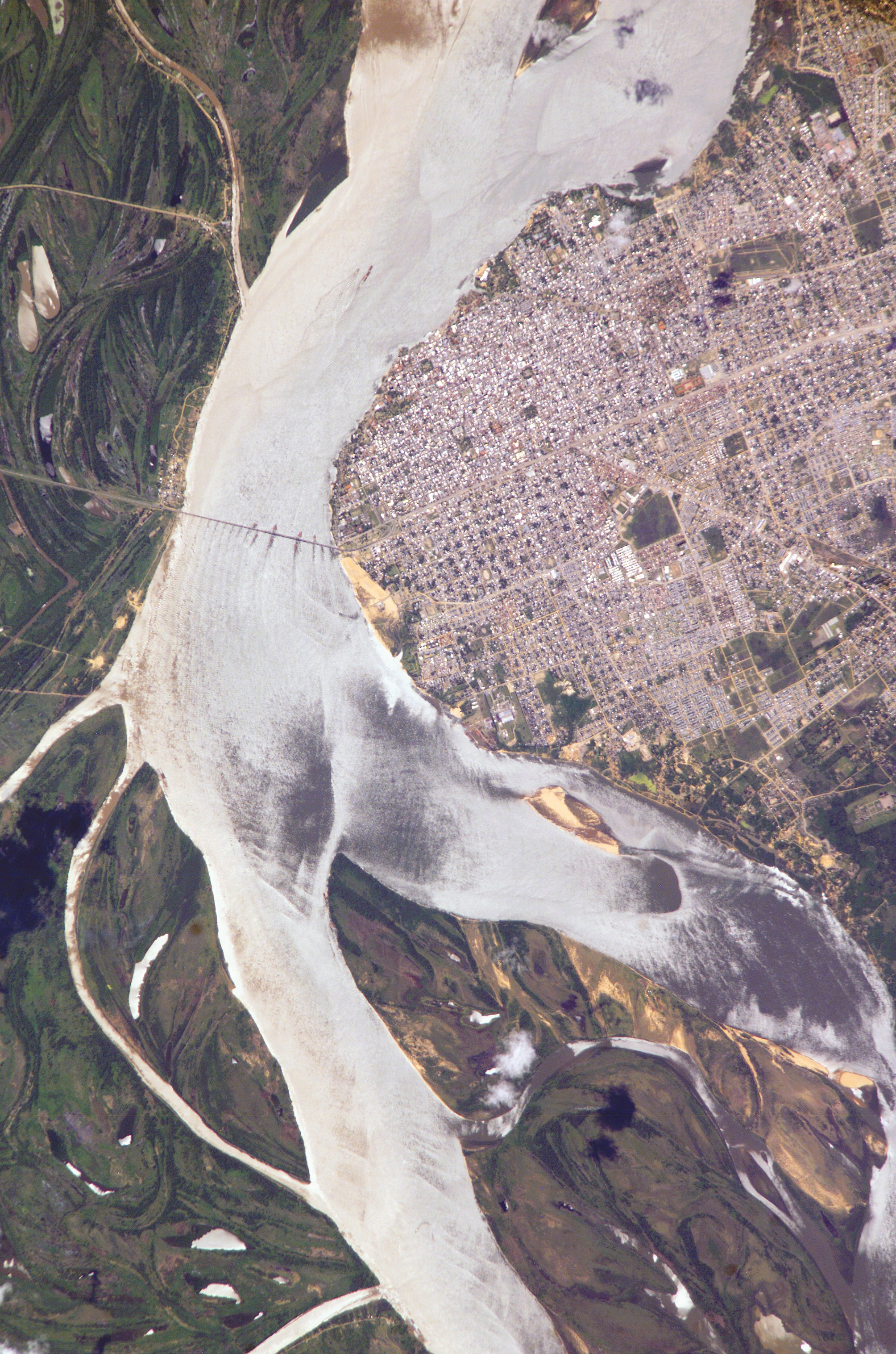 The city of Corrientes, capital of the province of the same name, in the Argentine Mesopotamia (litoral region in the north-east of the country), on the eastern shore of the Paraná River. Picture taken from the International Space Station. Corrientes, Argentina, and the Parana River are featured in this image photographed by an Expedition 10 crewmember on the International Space Station (ISS). Corrientes, Argentina sits on the east bank of the Parana River, South America’s third largest river (after the Negro and Amazon Rivers). From its headwaters in southeastern Brazil, the river flows southwestward around southern Paraguay, and then into Argentina. Corrientes is located just inside Argentina, across the river from the southwestern tip of Paraguay. The bridge over the Parana, built in the 1970s, connects Corrientes to its sister city, Resistencia, (beyond the left edge of image) on the western bank of the river. Sun glint on the river gives it a silvery glow and emphasizes channel islands in the river, side channels, and meander scars on the floodplain opposite the city, and even reveals the pattern of disturbed flow downstream of the bridge pylons. The old part of the city appears as a zone of smaller, more densely clustered city blocks along the river to the north of a major highway, which runs through Corrientes from the General Belgrano Bridge to the northeast (upper right of image). Larger blocks of the younger cityscape, with more green space, surround these core neighborhoods.